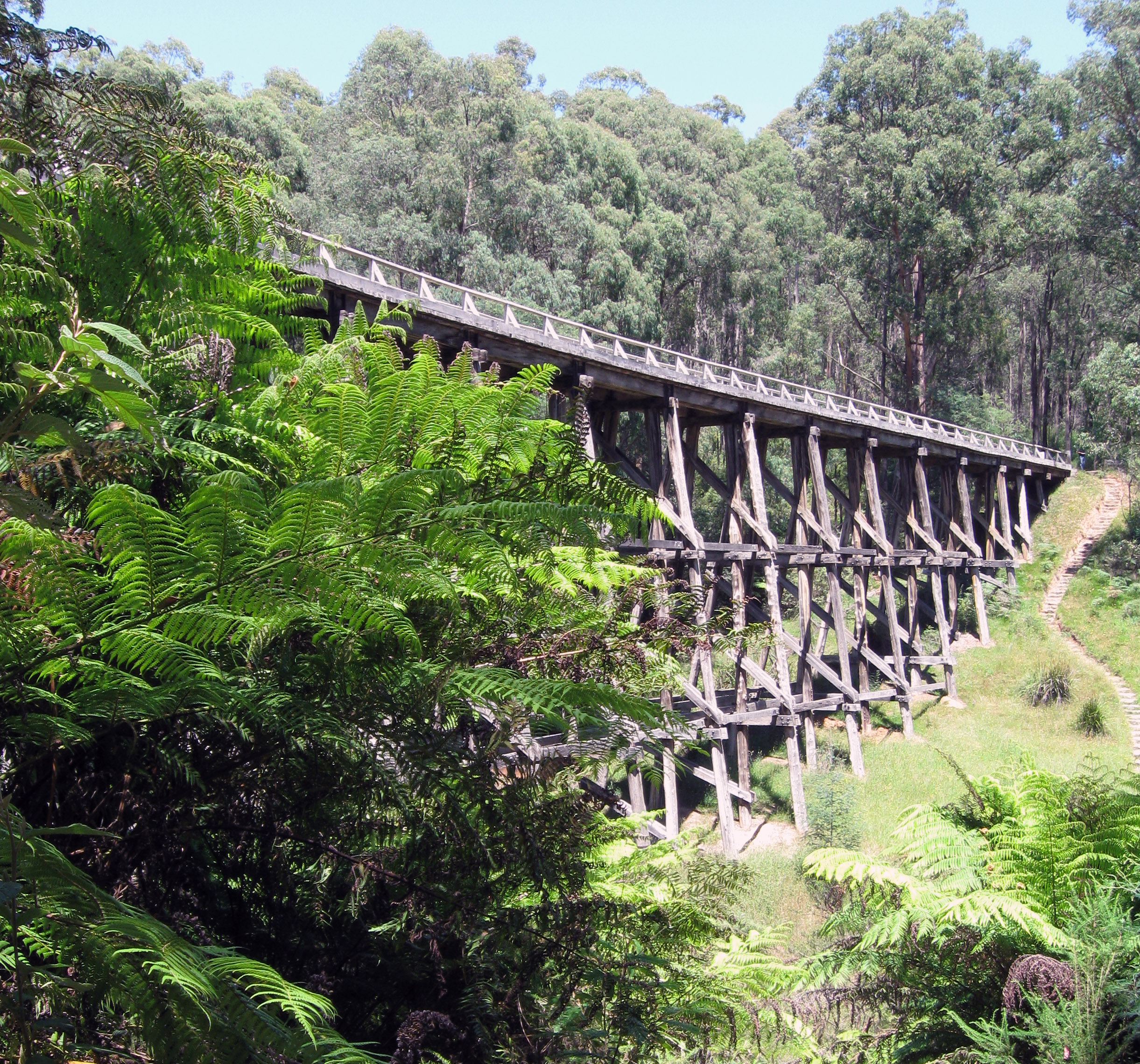 Bridge 7 on the former Noojee railway line, Victoria, near Noojee, Victoria.